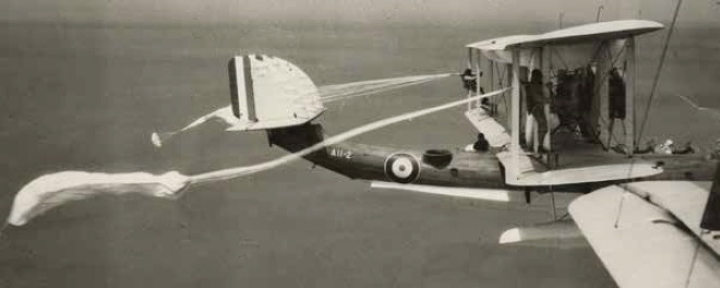 Pull-off parachute jumps from a Southampton flying boat.